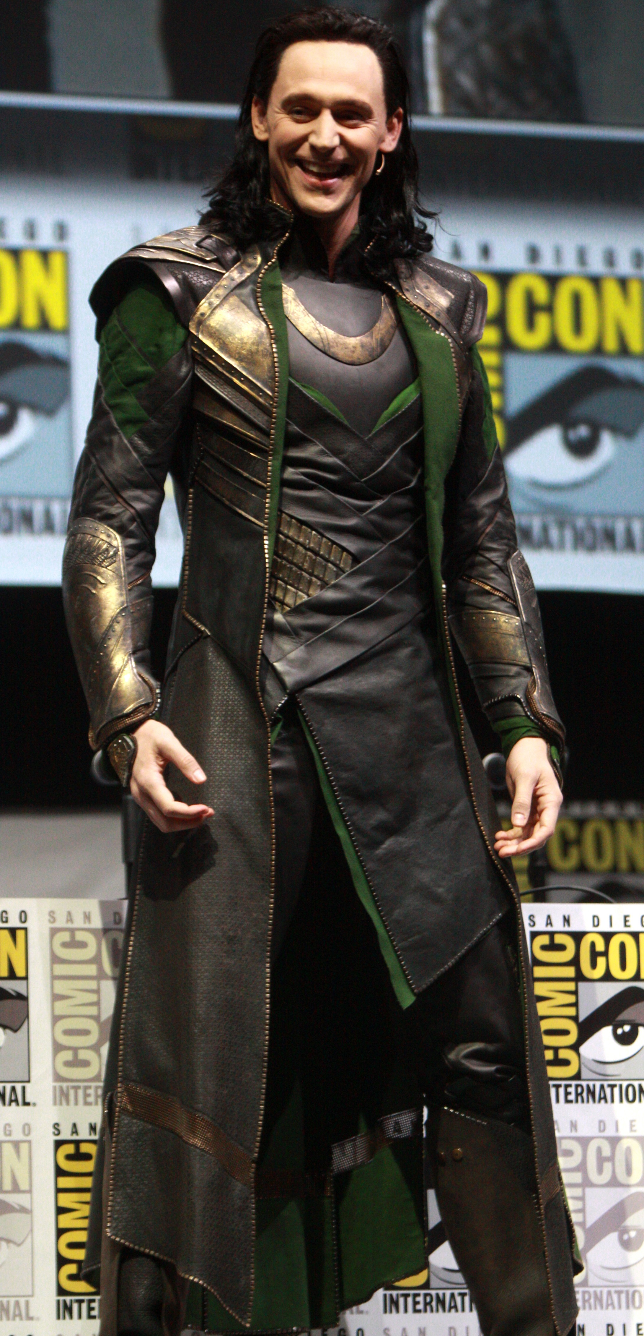 Tom Hiddleston at the 2013 San Diego Comic Con International in San Diego, California.